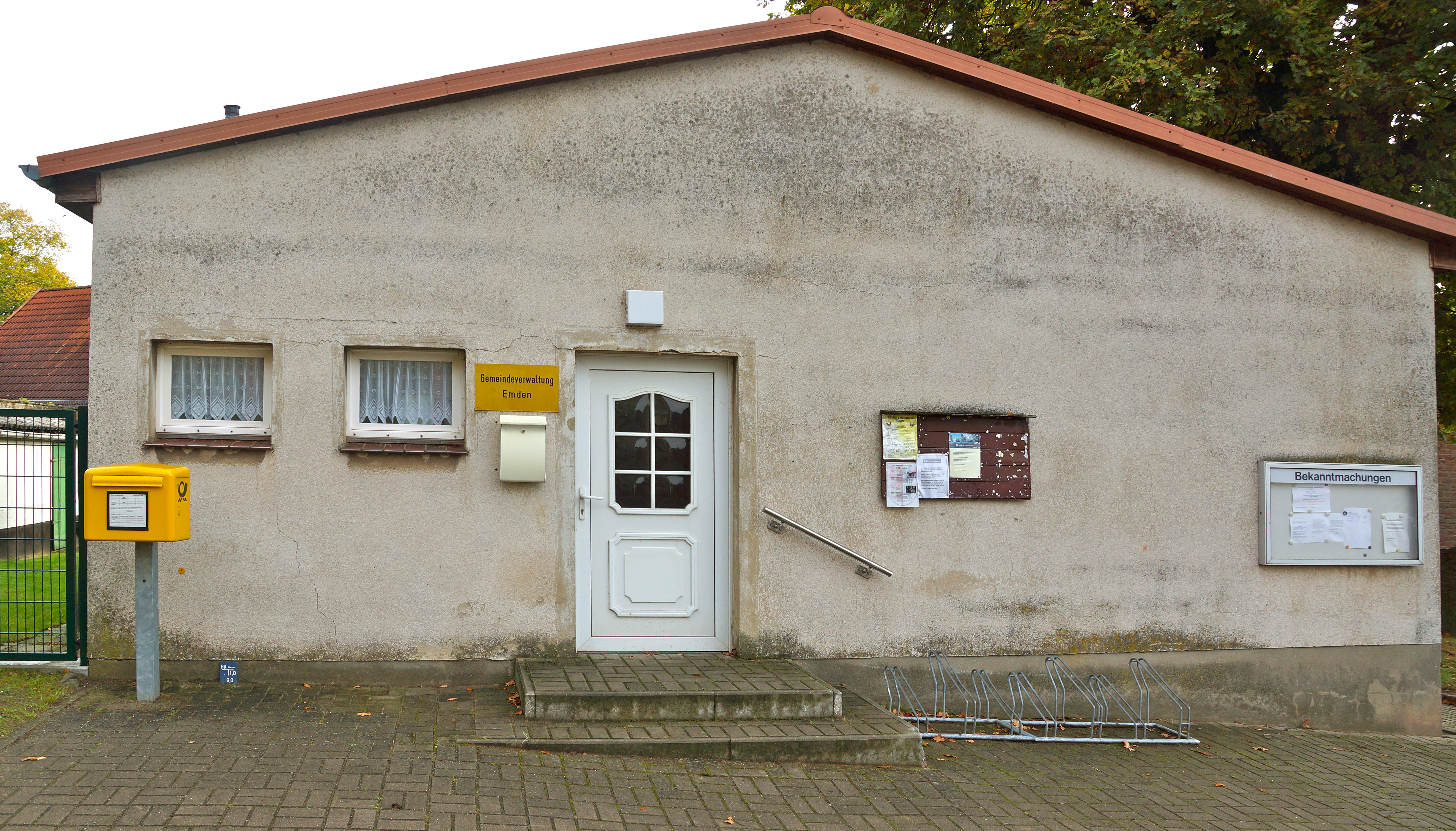 Altenhausen (Emden), Germany: Town hall